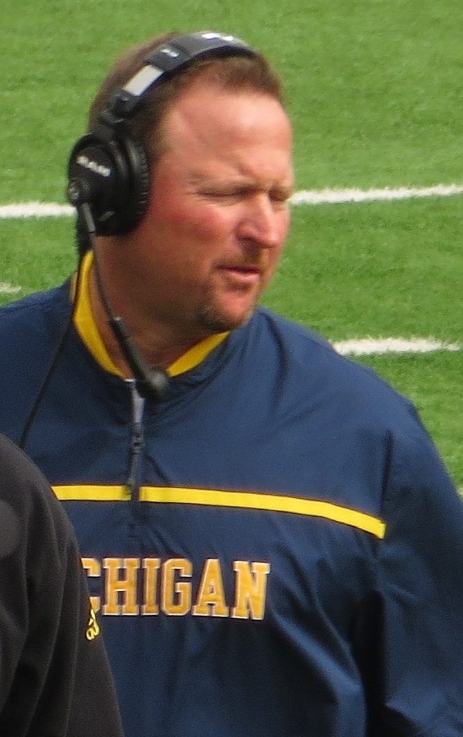 Michigan offensive coordinator Tim Drevno and quarterback Jake Rudock during Michigan's game against BYU on Sept. 26, 2015.